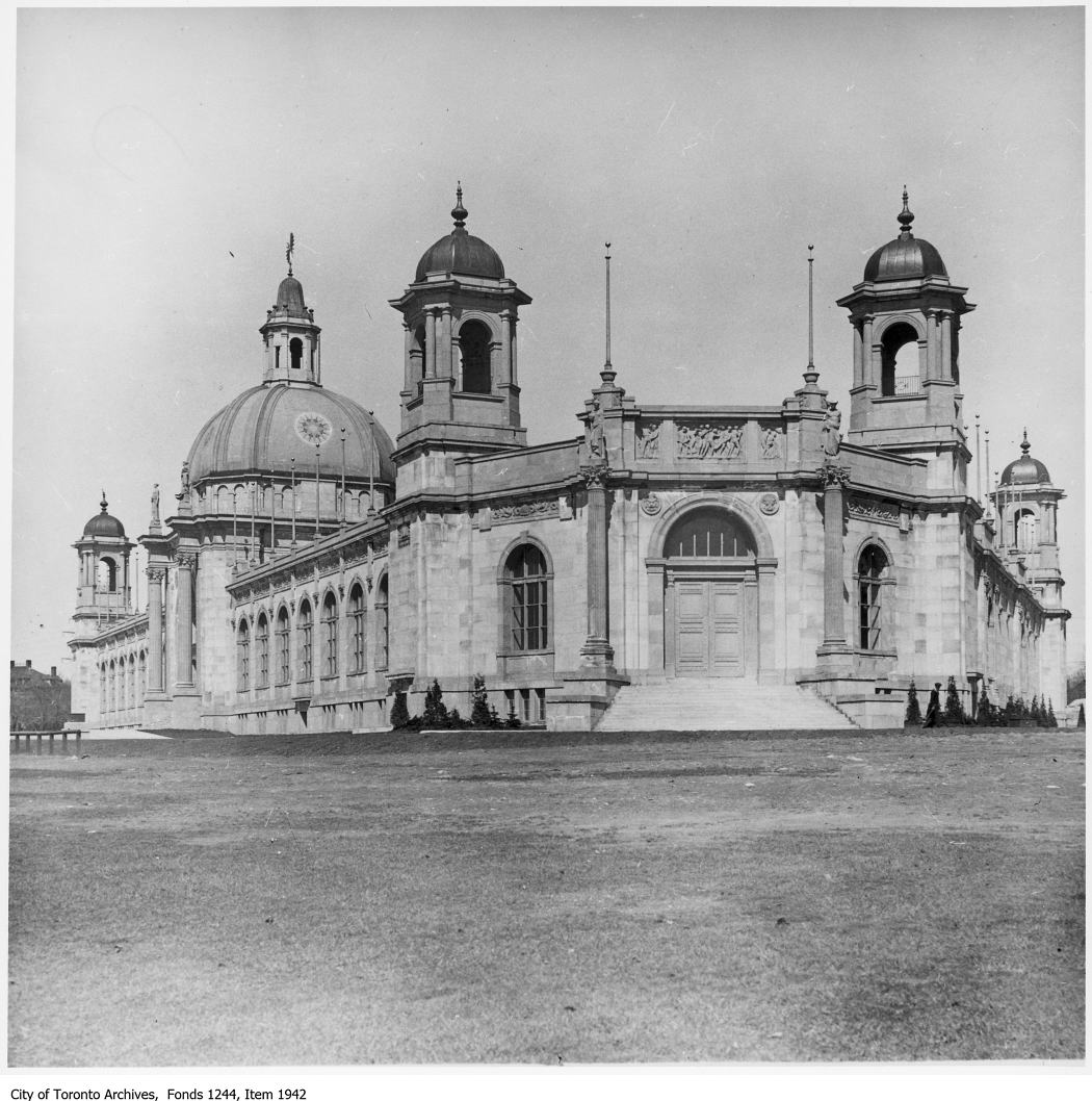 Southwest view of Ontario Government Building.